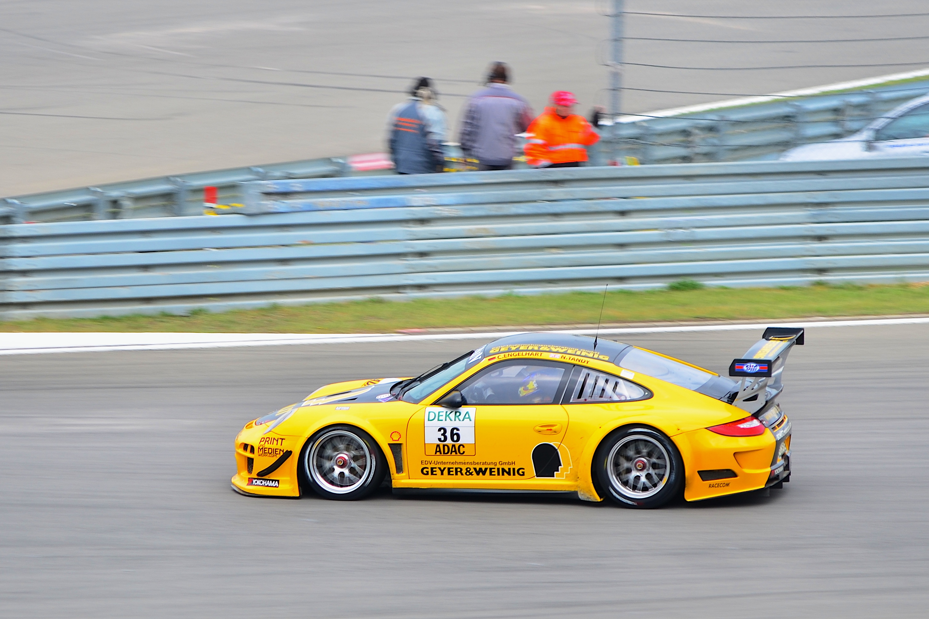 Photo taken during the 13th run of the ADAC GT Masters Championship at the Nürburgring Grand Prix Course. Driver: Nick Tandy for Schütz Motosport